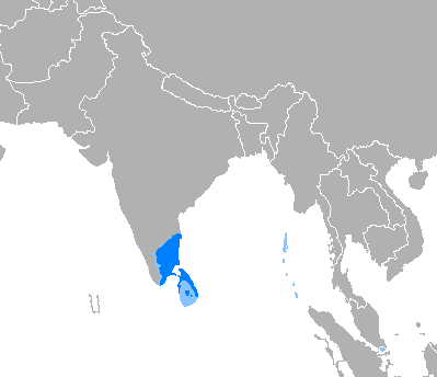 Tamil spoken by the majority Tamil spoken by the minority